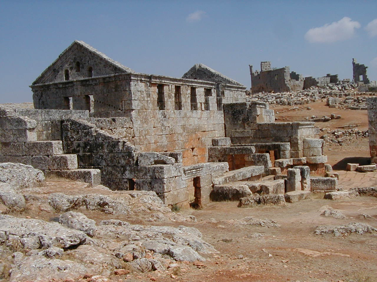 Byzantine Bath of Sergilla (Syria)